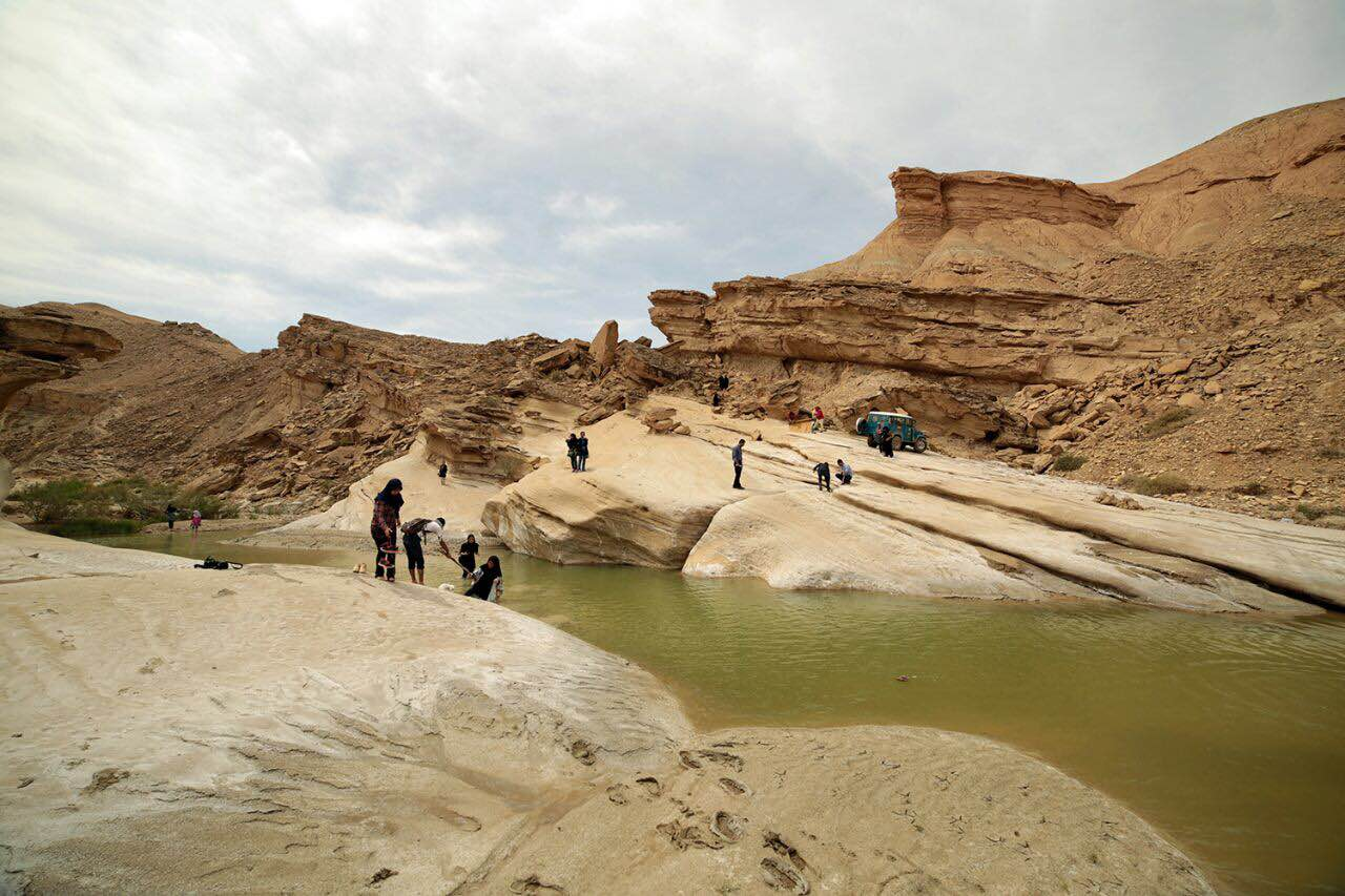 سد گمپو جاذبه گردشگری روستای محمدزینا